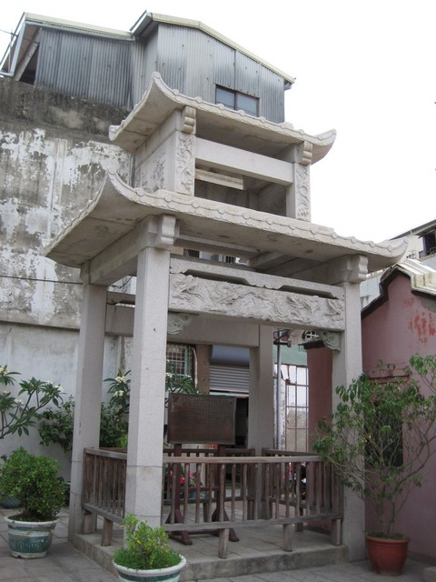 A historical stone building in Tainan, Taiwan.